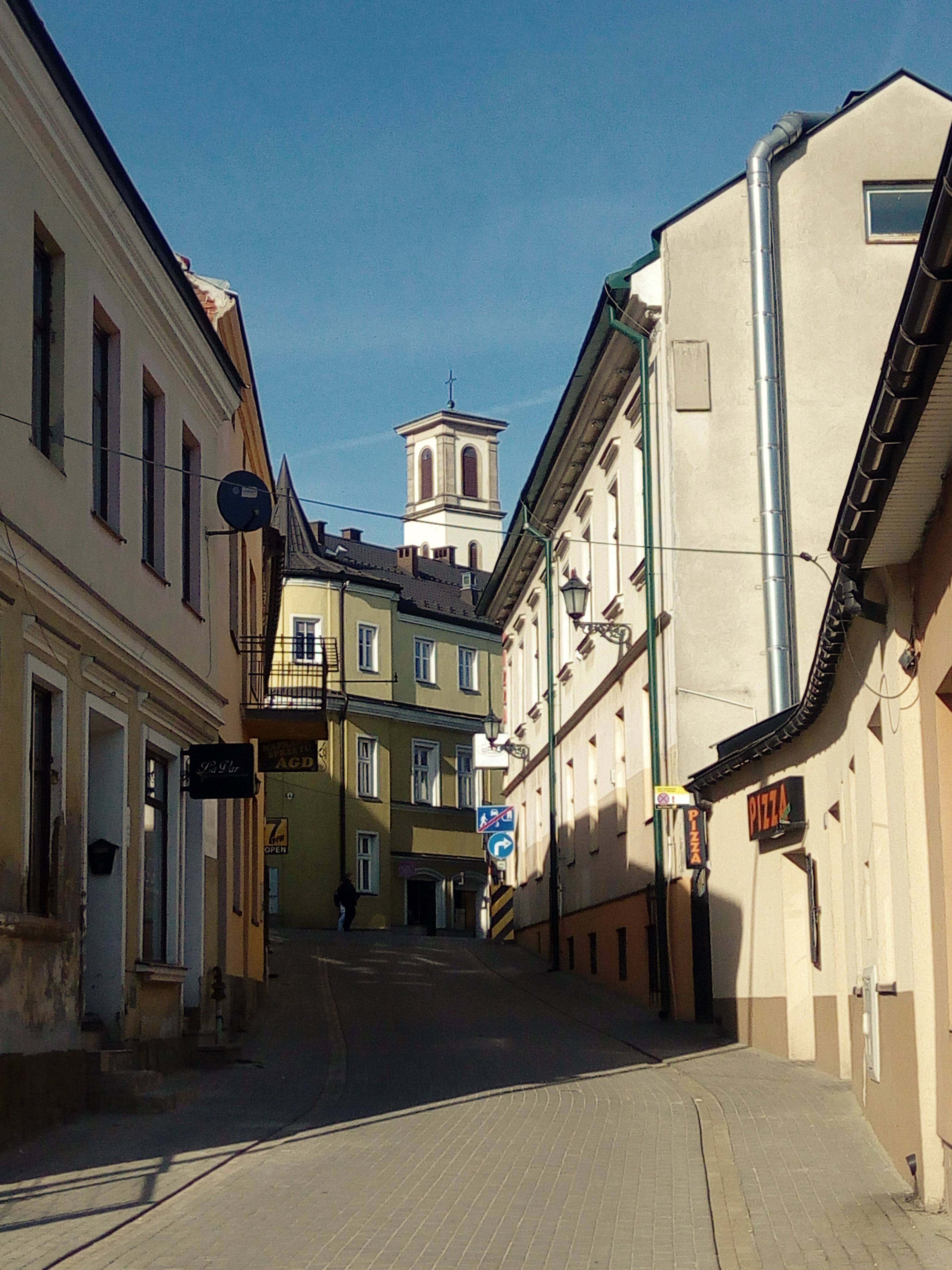 Garbarska Street in Gorlice, southern Poland, with the tower of the Nativity Church in the background.